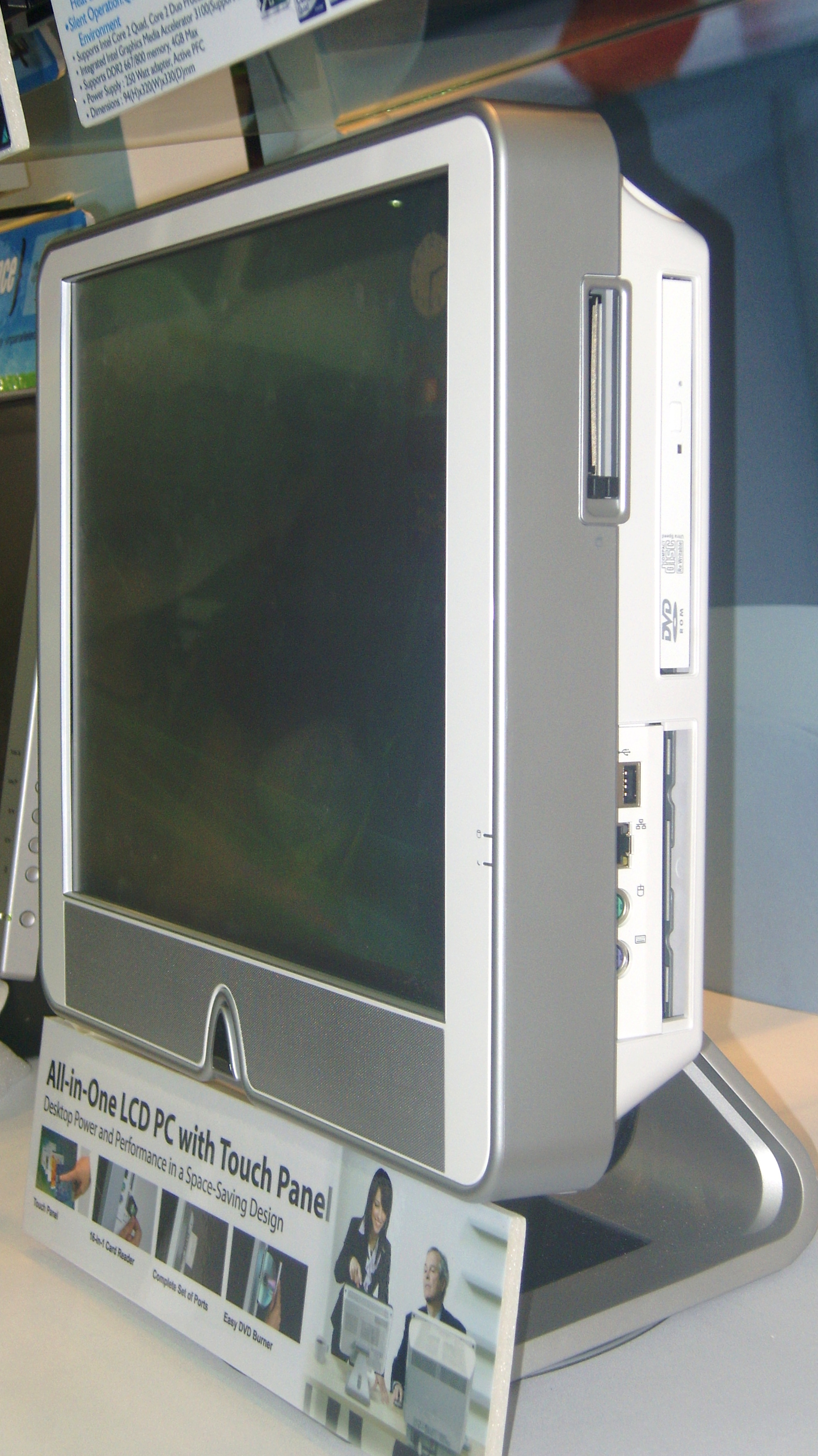 2008 Computex: MSI Crystal A410.